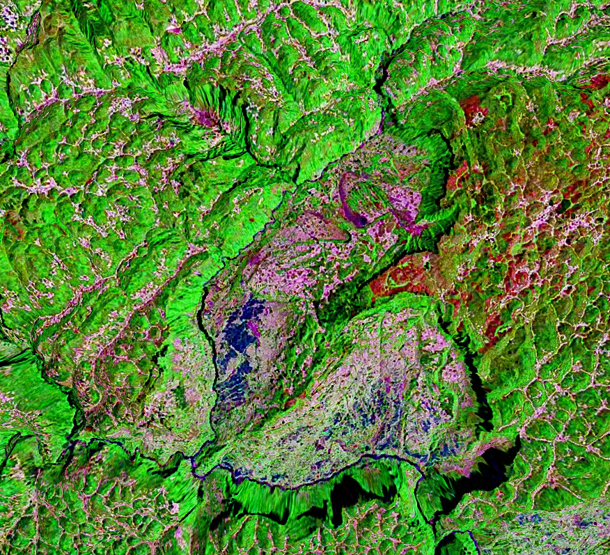 Satellite Image of the Enshi Canyon, China